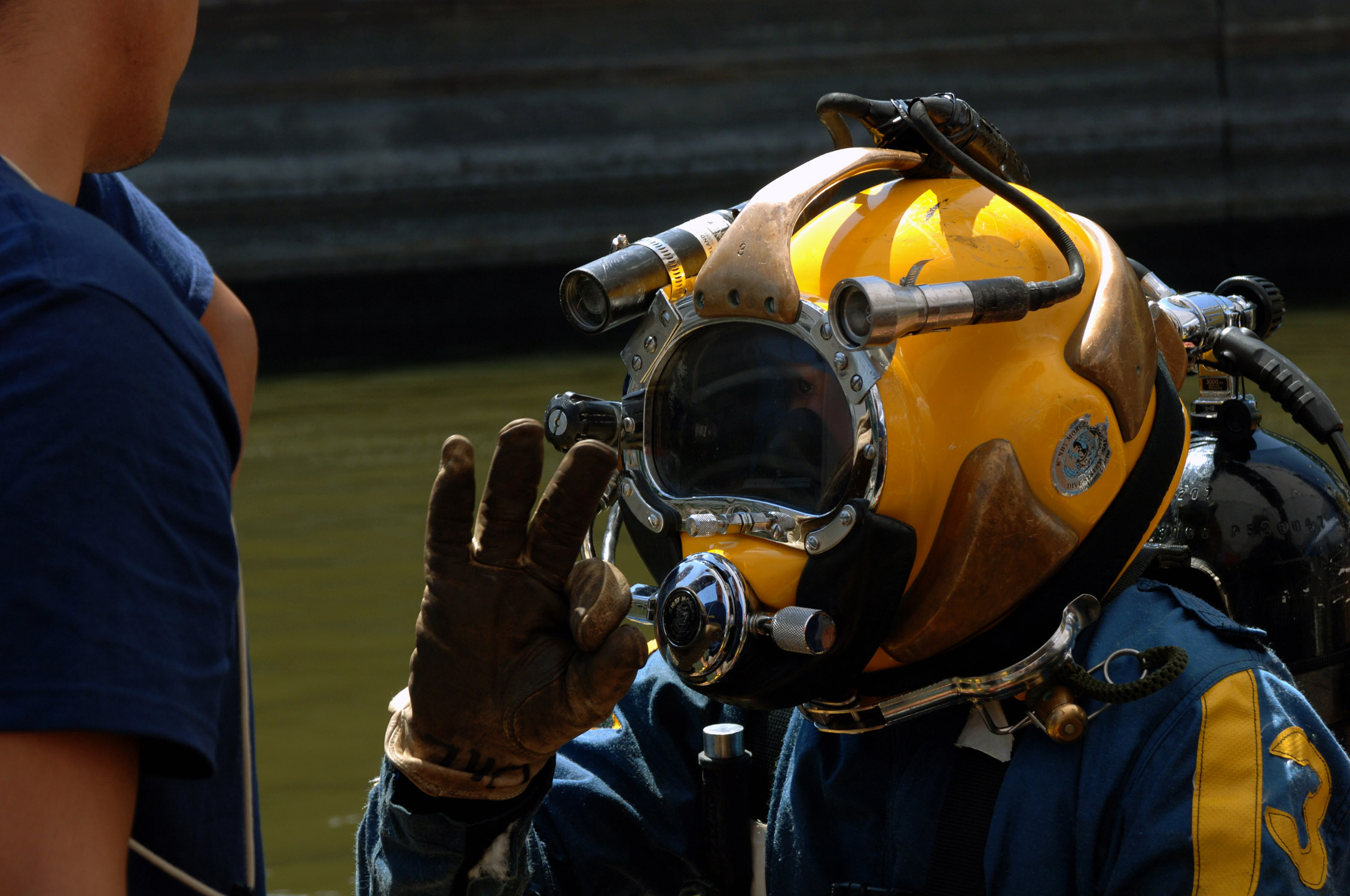 MINNEAPOLIS, Minn. (Aug. 11, 2007) - Chief Navy Diver Scott Maynard attached to Mobile Diving and Salvage Unit (MDSU) 2, readies for a dive into the Mississippi river in support of ongoing search and recovery operations. MDSU 2 has been in Minneapolis supporting local, state and federal officials in the wake of the collapse of the I-35 Bridge. U.S. Navy photo by Senior Chief Mass Communication Specialist Andrew McKaskle (RELEASED)